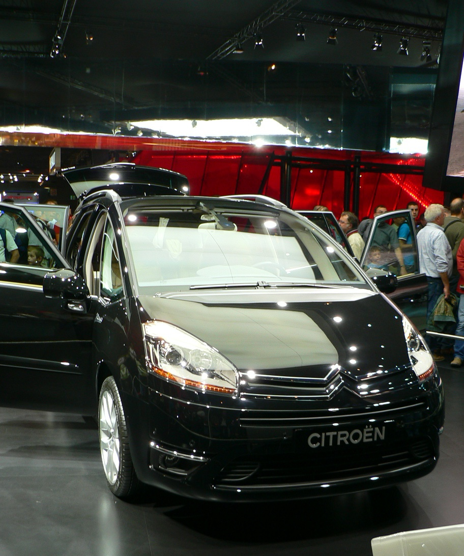 Citroen C4 Picasso at the 2006 Paris Motor Show